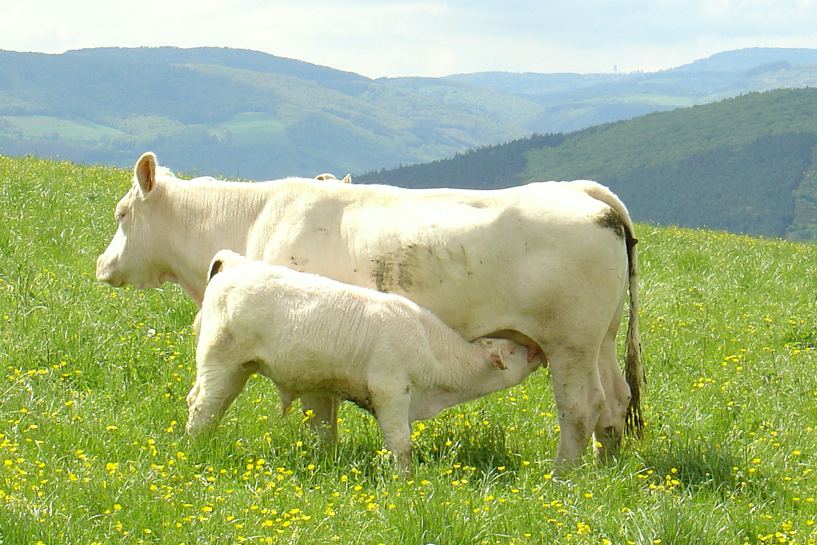 Charolais cattle and his calf